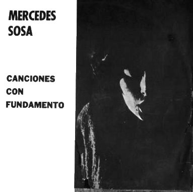 Cover Album "Canciones con fundamento", Mercedes Sosa, Ed. El Grillo 002, Buenos Aires.